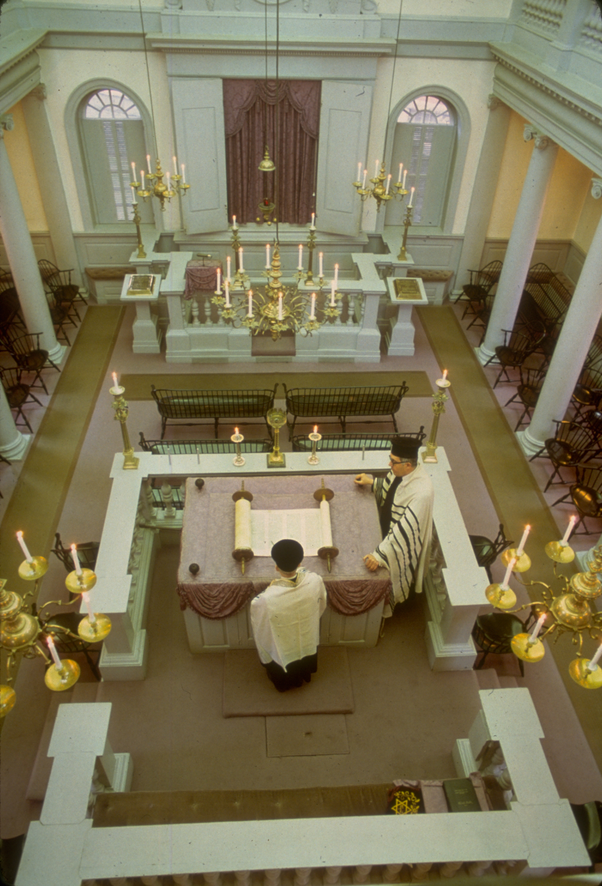 The Touro Synagogue was dedicated in 1762, and serves an active congregation today. The congregation was founded in 1658 by Sephardim who fled the Inquisition in Spain and Portugal and were searching for a haven from religious persecution in the Caribbean. Today, the synagogue celebrates not only their story, but serves to honor all who came to this shore seeking to worship freely.